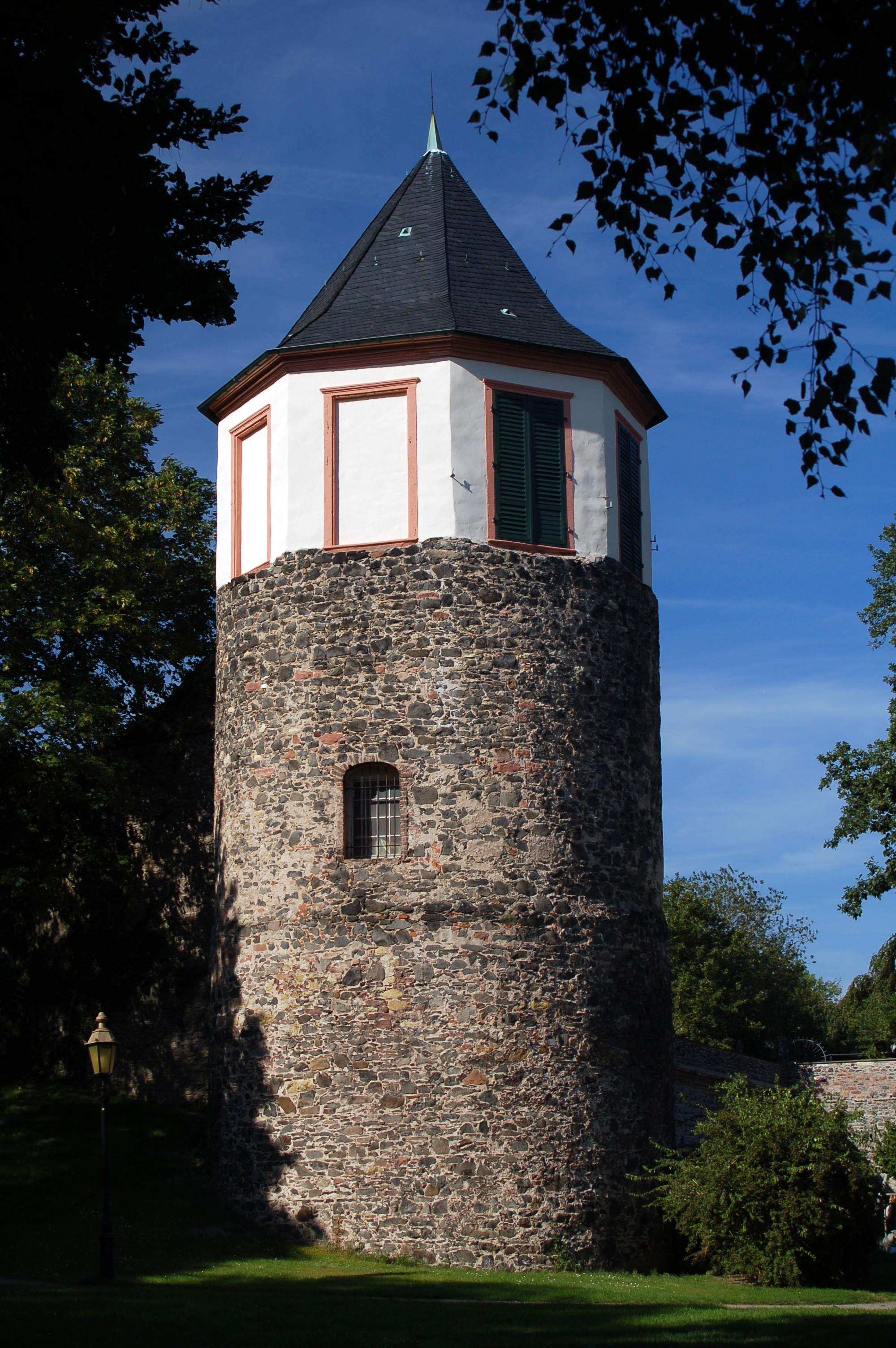 Oxtower, west part of the old defensive wall of Höchst on Main